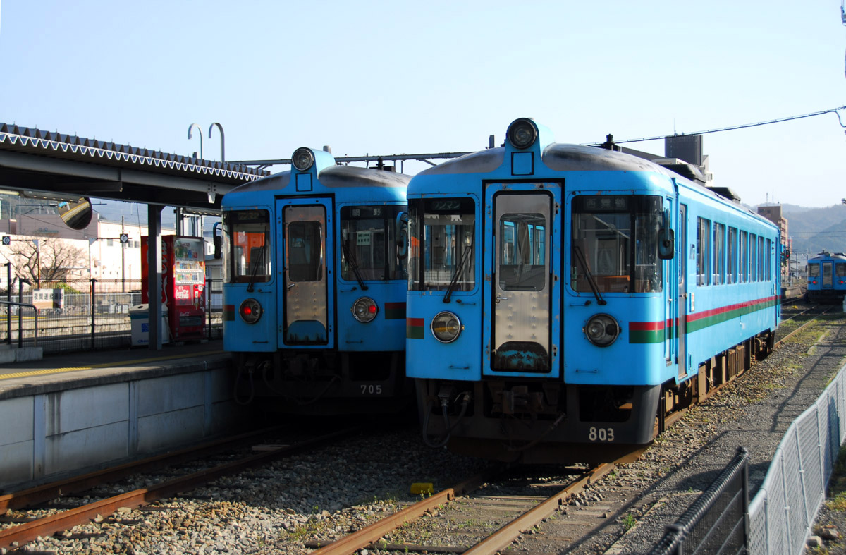 Kitakinki-Tango Railway KTR700 and KTR800 diesel train parking at Nishi-Maitsuru-Station